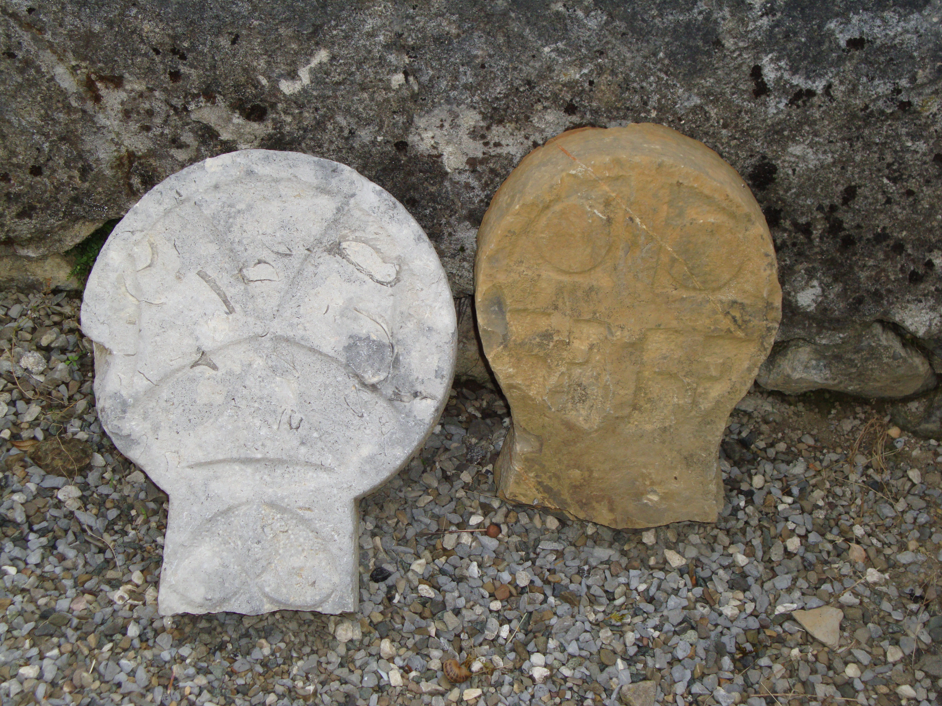 Camou (Camou-Cihigue, Pyr-Atl, Fr)old basque steles